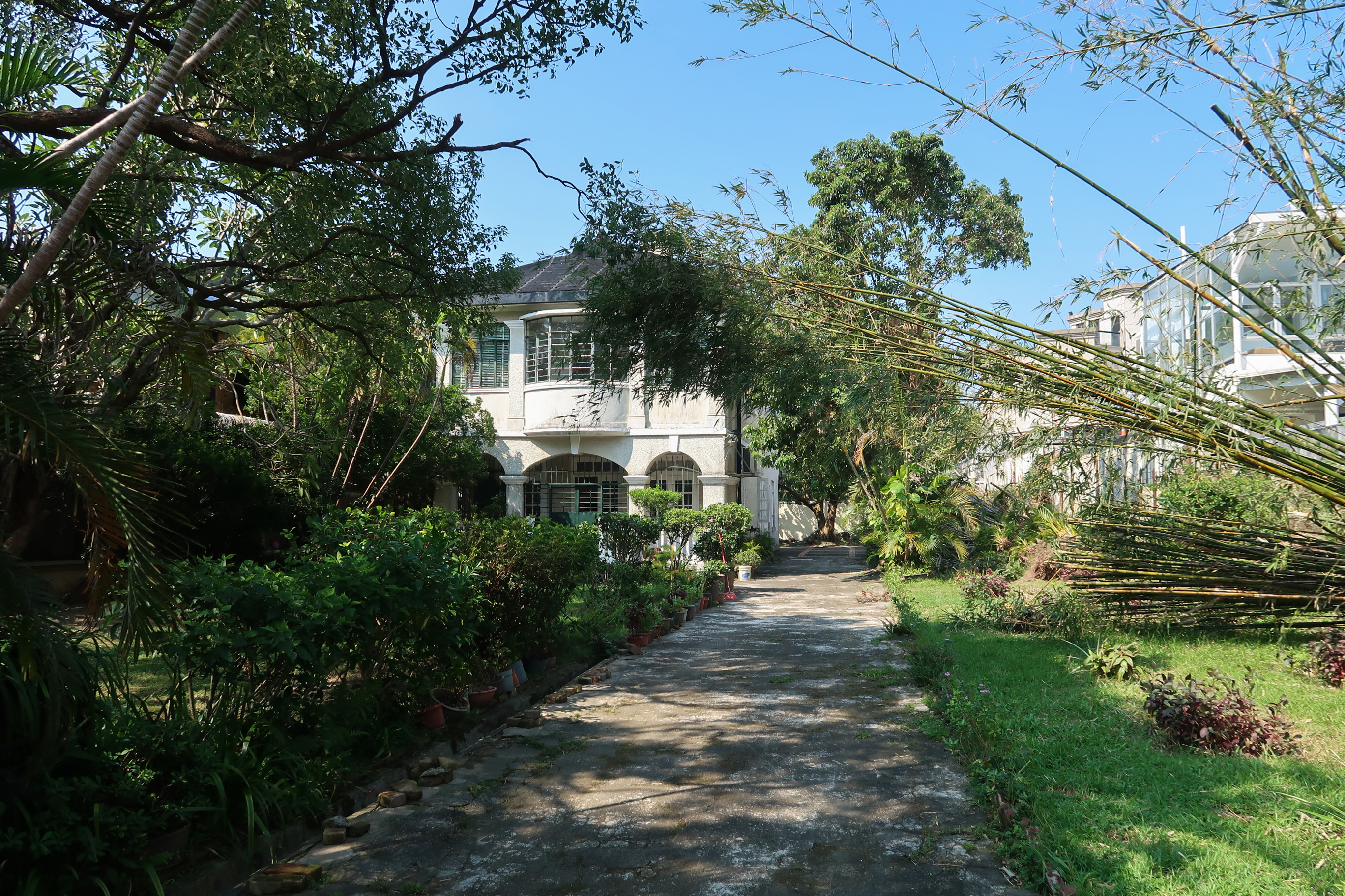 Kent Road No 27